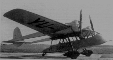 The Aeroput MMS-3, a Serbian 1930s airliner.